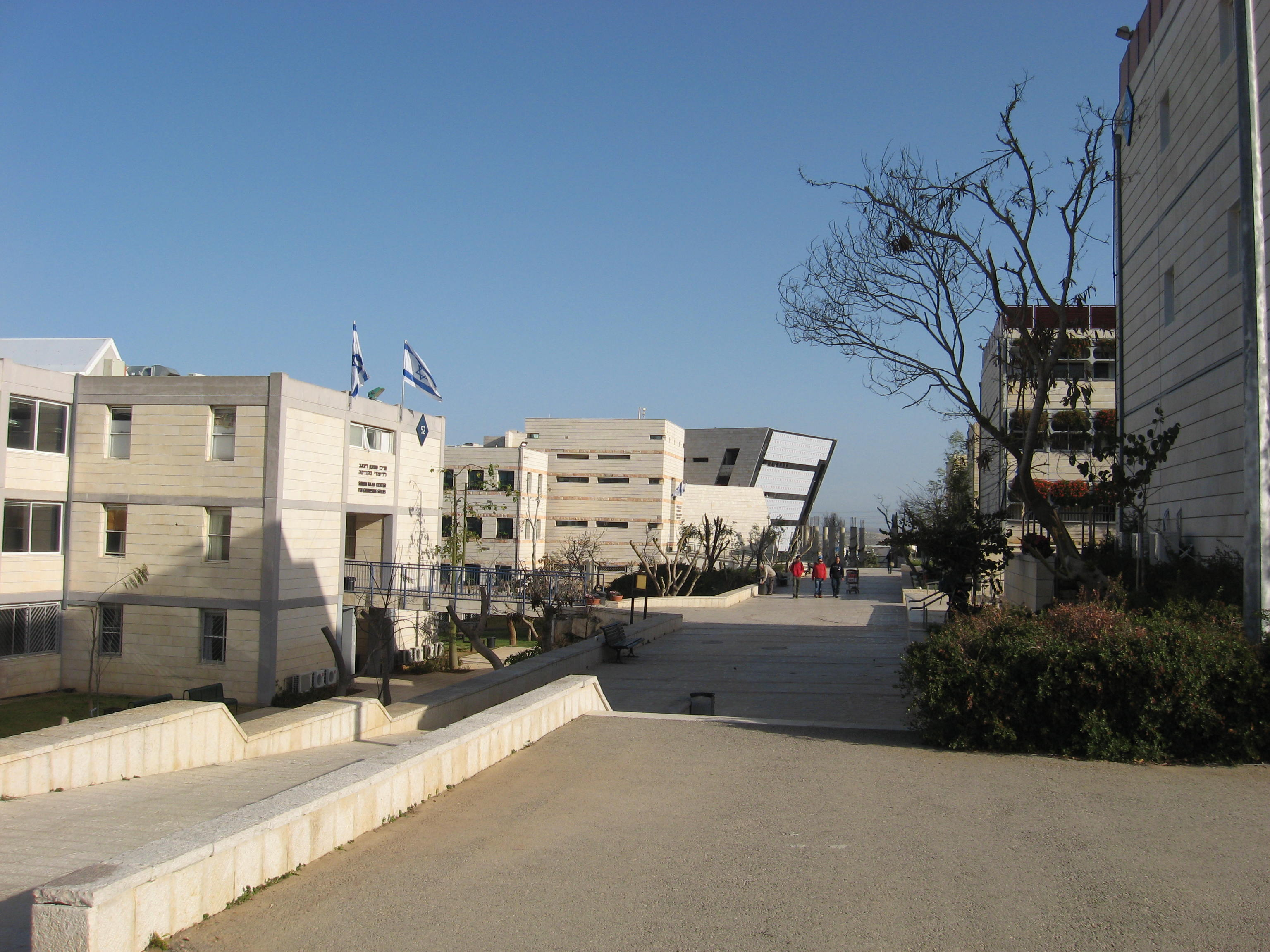 Ariel University, Lower Campus